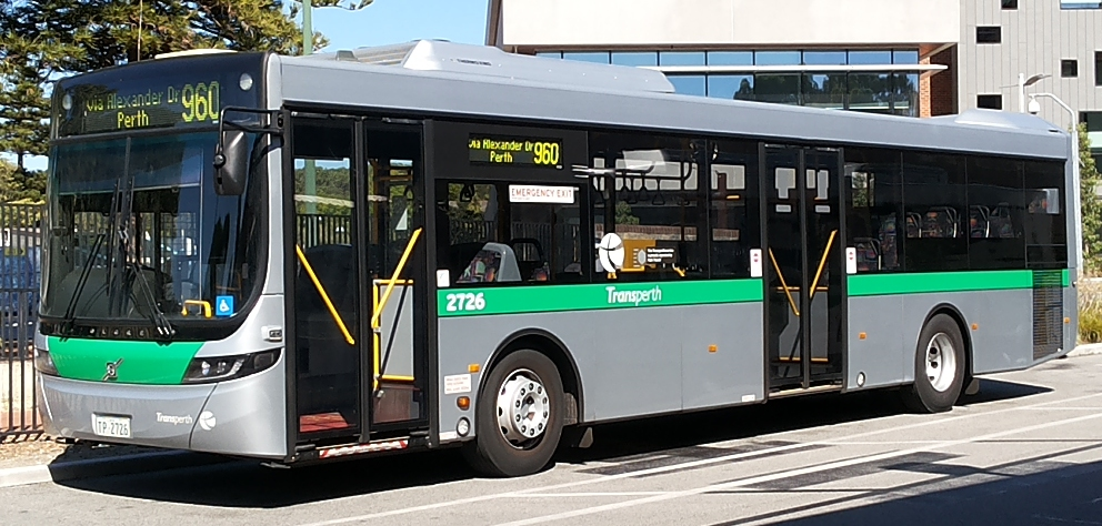 Transperth's Volgren Optimus-bodied Volvo B7RLE, numbered #2726 and operated by Path Transit; seen parked at Curtin University Bus Station.